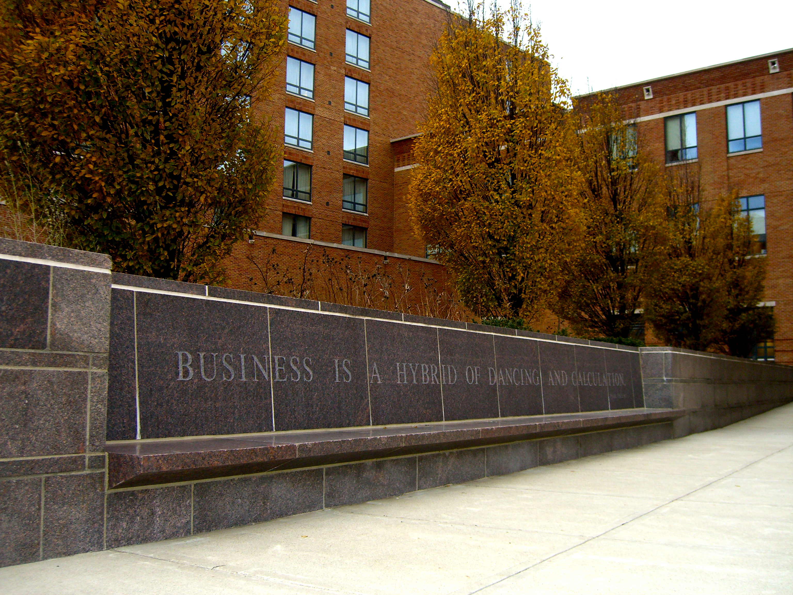 Business is a hybrid of dancing and calculation